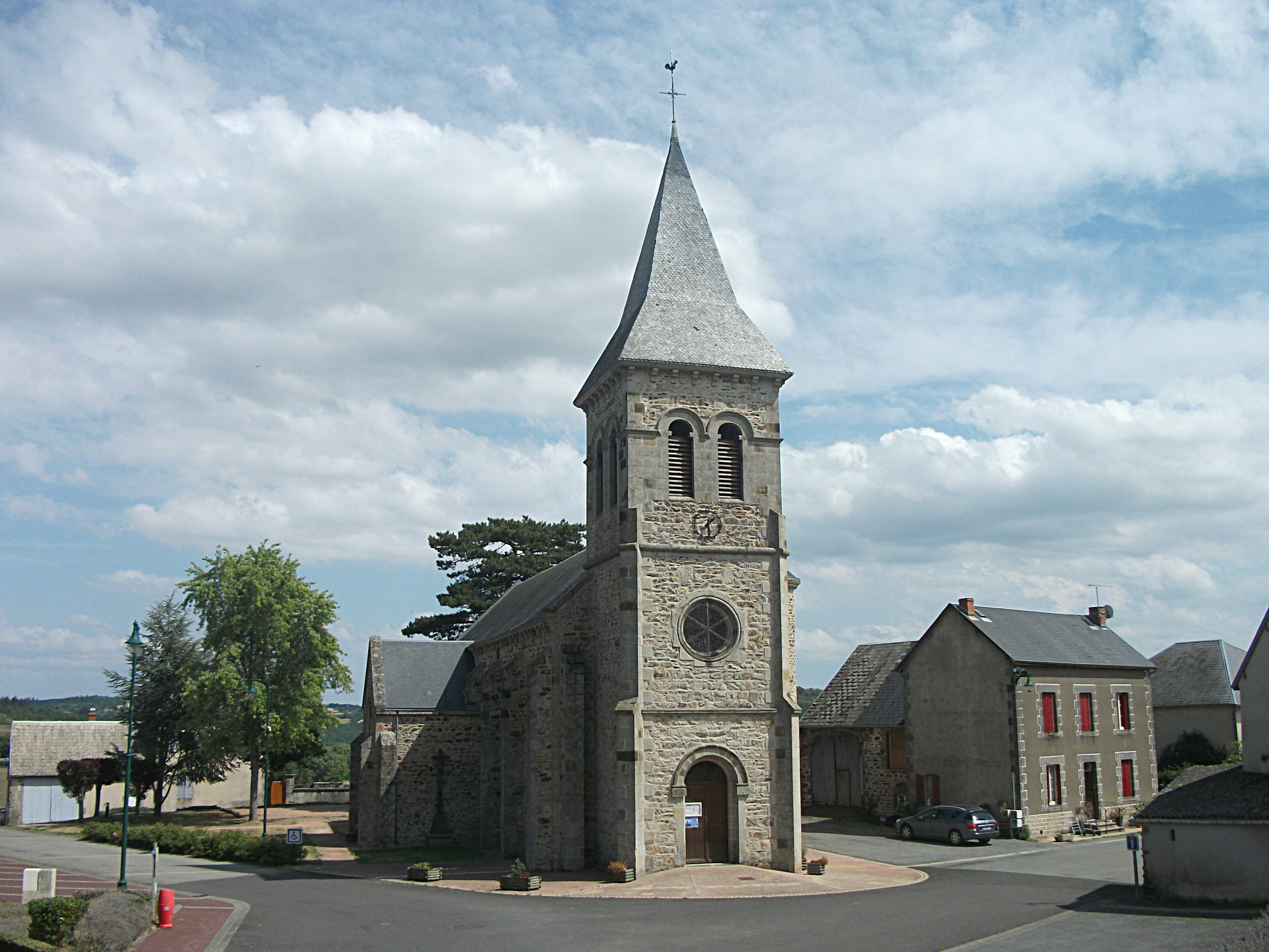 Church of Ayat-sur-Sioule, Puy-de-Dôme, Auvergne-Rhône-Alpes, France. [18903]